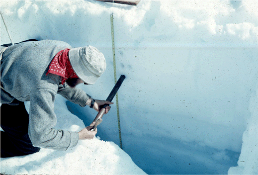 A scientist collecting snow and ice samples from the wall of a snow pit. Fresh snow can be seen at the surface and glacier ice at the bottom of the pit wall. The snow layers are composed of progressively denser firn. Taku Glacier, Juneau Icefield, Tongass National Forest, Alaska. Contents 1 Automatically converted to PNG 1.1 Previous file history 1.2 Previous description history 2 Licensing 3 Original upload log Automatically converted to PNG The PNG crusade bot automatically converted this image to the more efficient PNG format. The image was previously uploaded as "Taku glacier firn ice sampling.gif". Previous file history 02:39:49, 13 May 2005 (UTC) . . SEWilco (Talk | Contribs) . . 519x352 (110,929 bytes) (A scientist collecting snow and ice samples from the wall of a snow pit. Fresh snow can be seen at the surface and glacier ice at the bottom of the pit wall. The snow layers are composed of progressively denser firn. Taku Glacier, Juneau Icefield,) Previous description history 18:59:07, 21 April 2007 (UTC) Remember the dot (Talk | Contribs) ( ShouldBePNG ) 02:41:13, 13 May 2005 (UTC) SEWilco (Talk | Contribs) (wk) 02:39:49, 13 May 2005 (UTC) SEWilco (Talk | Contribs) (A scientist collecting snow and ice samples from the wall of a snow pit. Fresh snow can be seen at the surface and glacier ice at the bottom of the pit wall. The snow layers are composed of progressively denser firn. Taku Glacier, Juneau Icefield,)